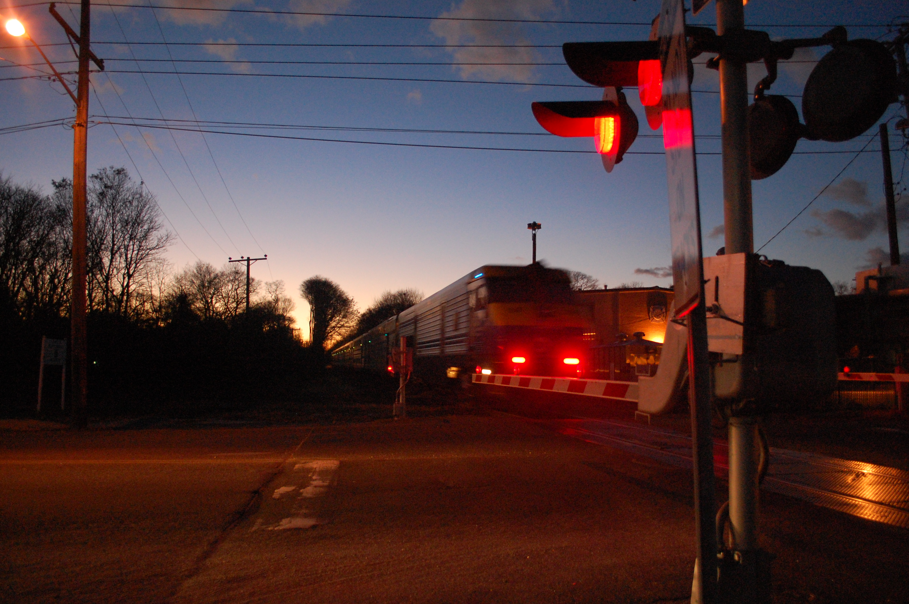 The LIRR diesel is speeding by the Mastic Road grade crossing (near Mastic Fire Department) through the former site of the Mastic Station. Mastic was closed and moved to a new site 7,000 ft to the west (at William Floyd Parkway) and renamed Mastic-Shirley.